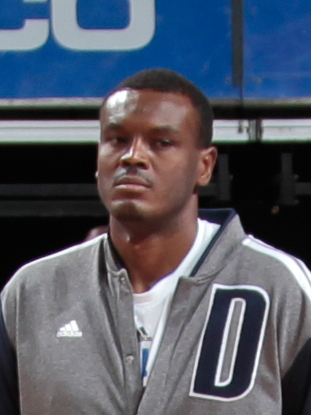 Samuel Dalembert, February 2014.